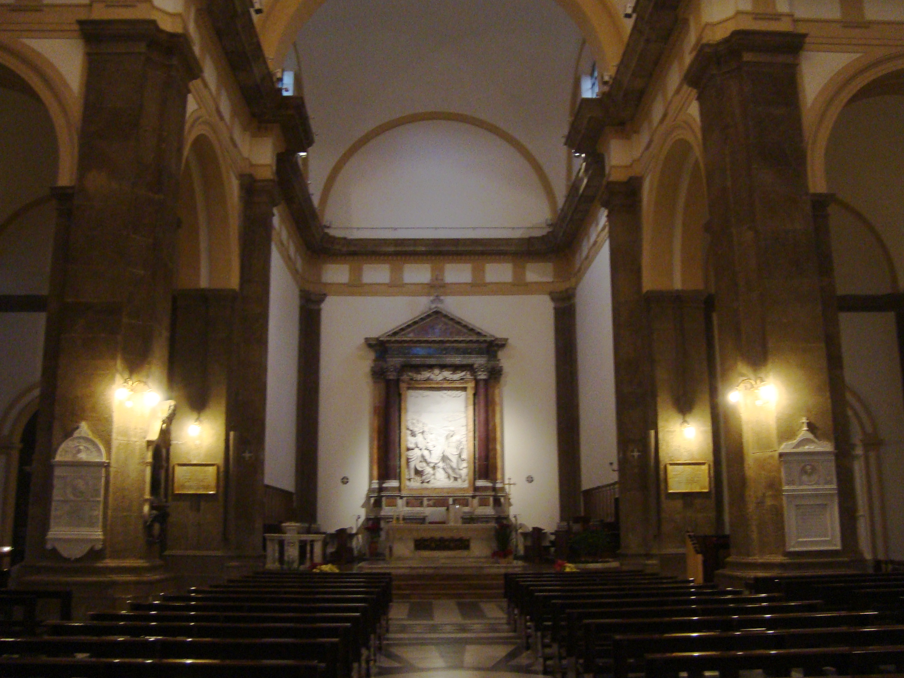 The interior of the Cathedral San Pietro in Frascati